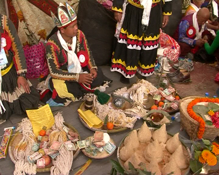 Tamu lhosar 2012 celebrated in Kathmandu.